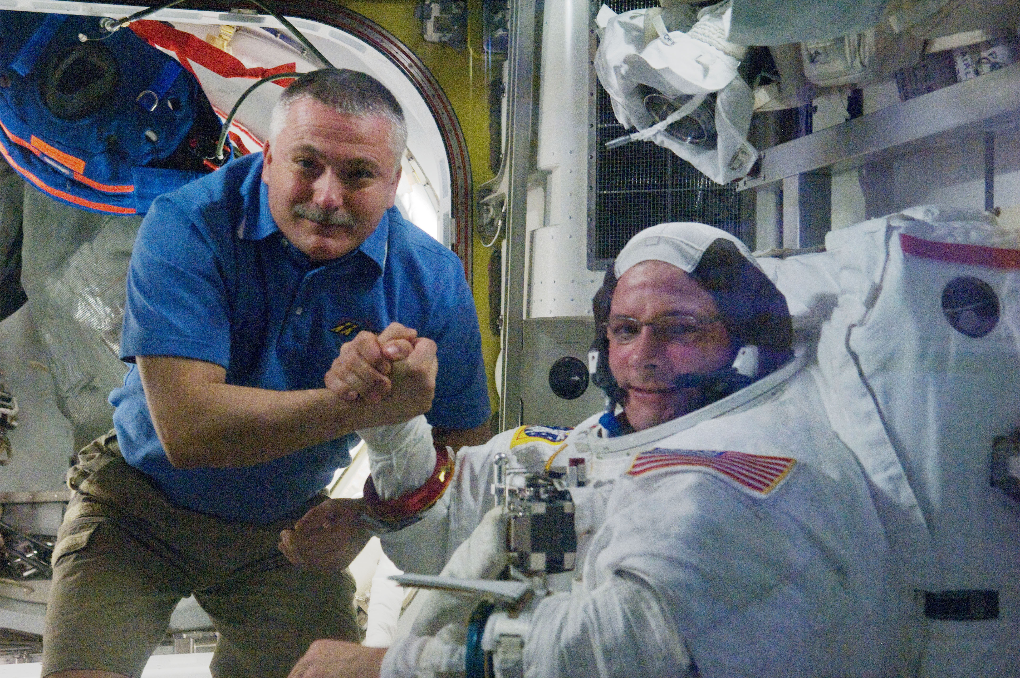 NASA astronaut Doug Wheelock (right), attired in his Extravehicular Mobility Unit (EMU) spacesuit, and Russian cosmonaut Fyodor Yurchikhin, both Expedition 24 flight engineers, pose for a photo in the Quest airlock of the International Space Station during preparations for the first of three planned spacewalks to remove and replace an ammonia pump module that failed July 31.